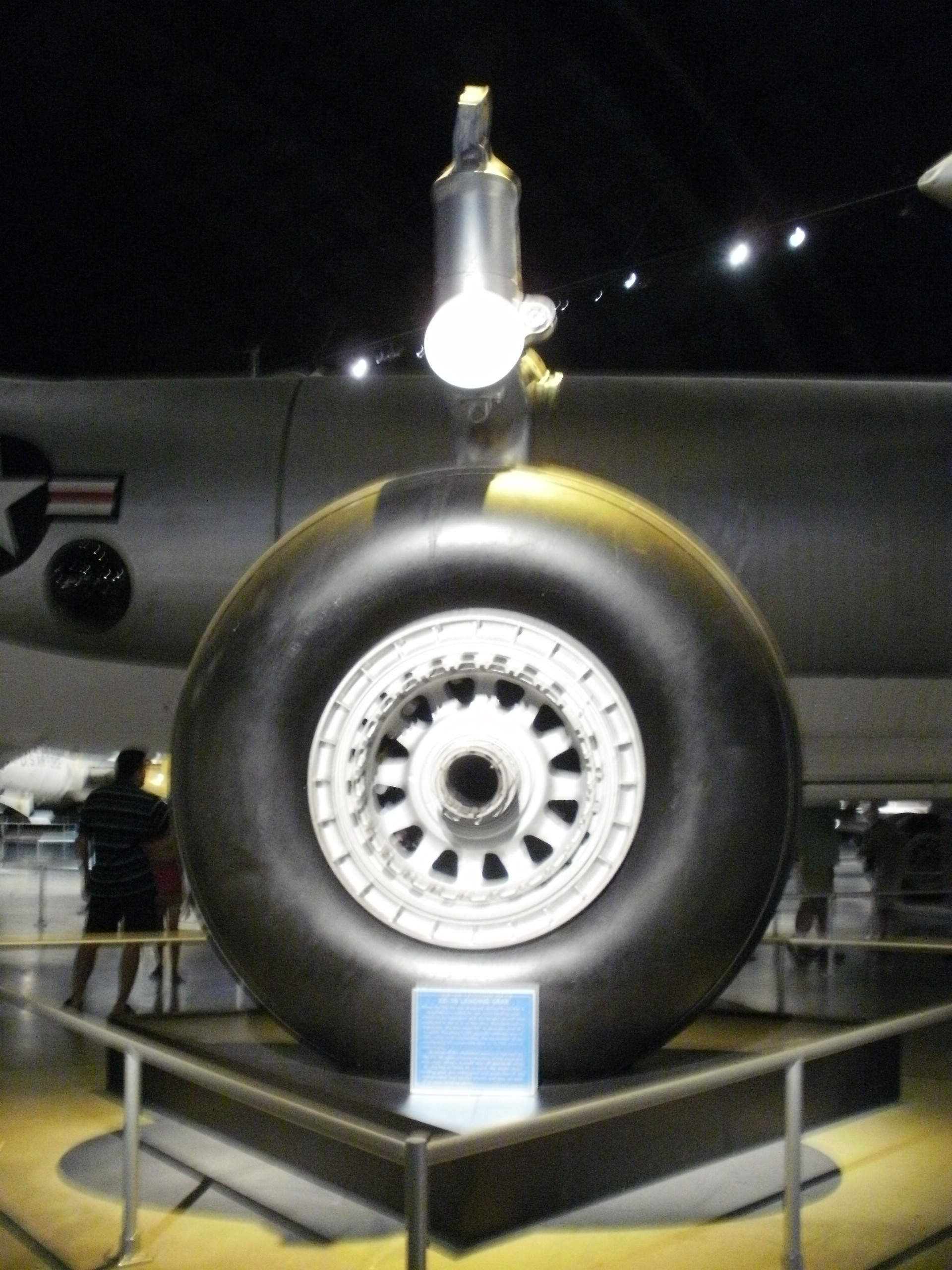 Original design of the landing gear for the XB-36, a massive single wheel. At the National Museum of the United States Air Force.